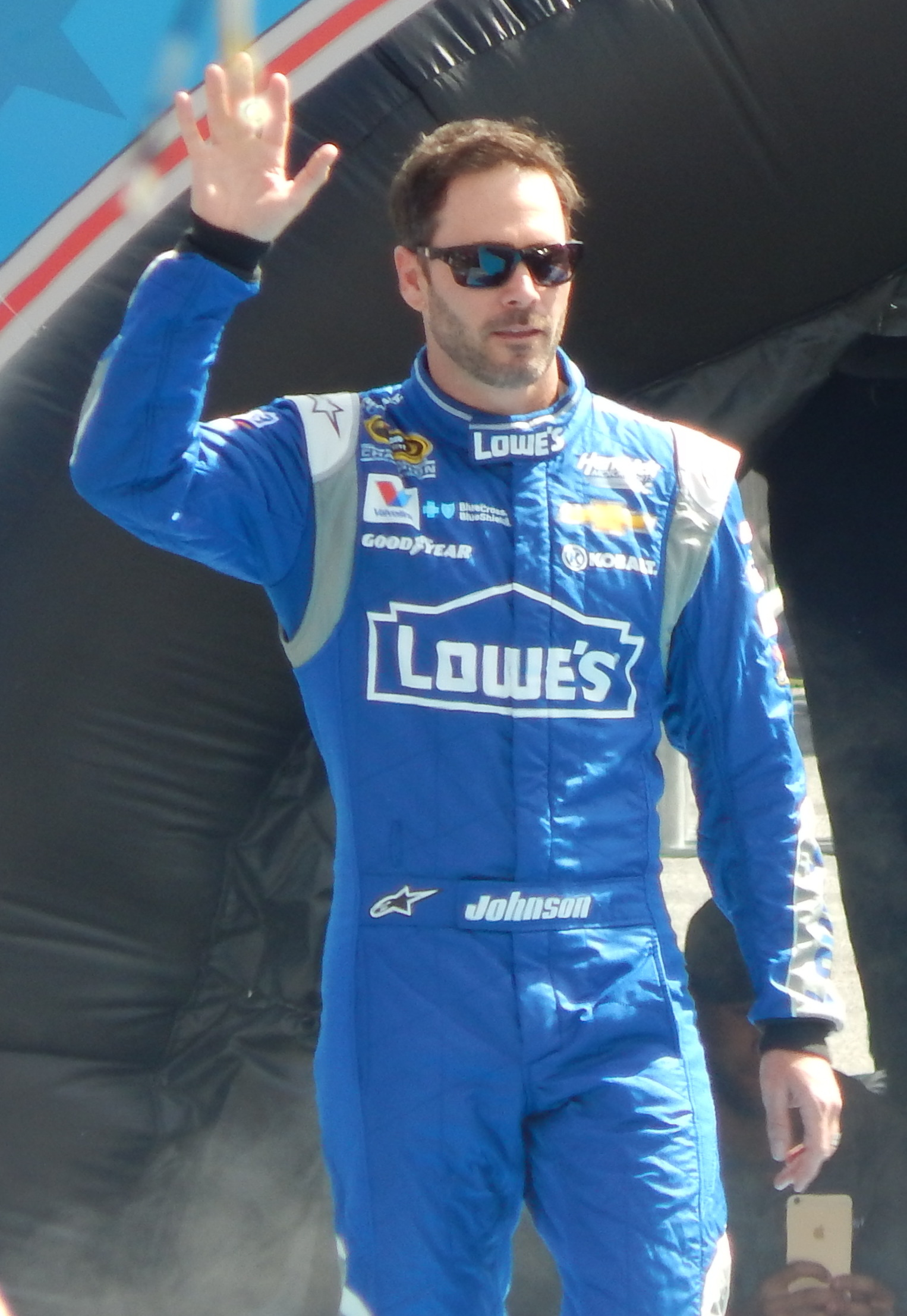 Jimmie Johnson being introduced at Daytona International Speedway.